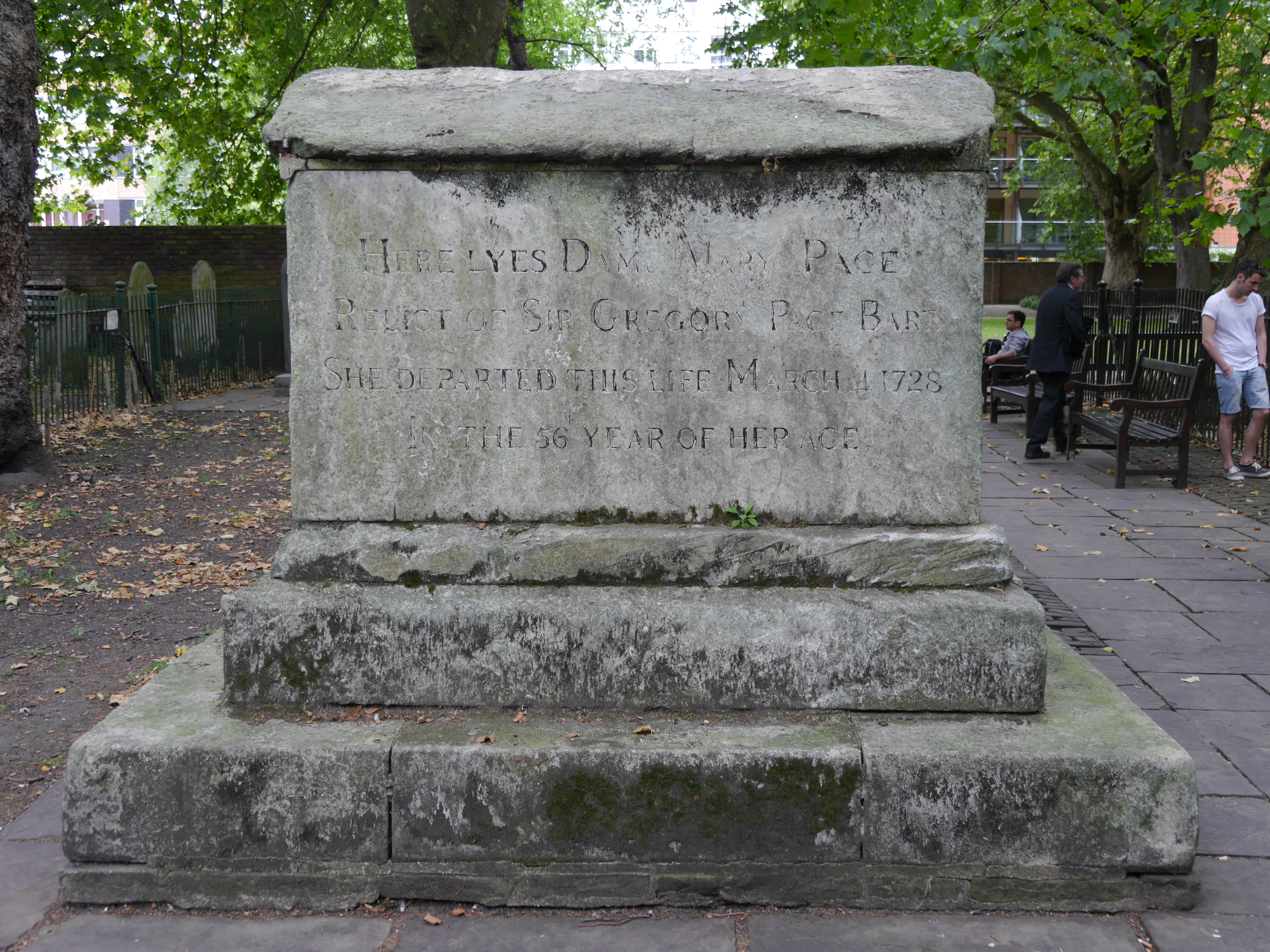 Bunhill Fields, London